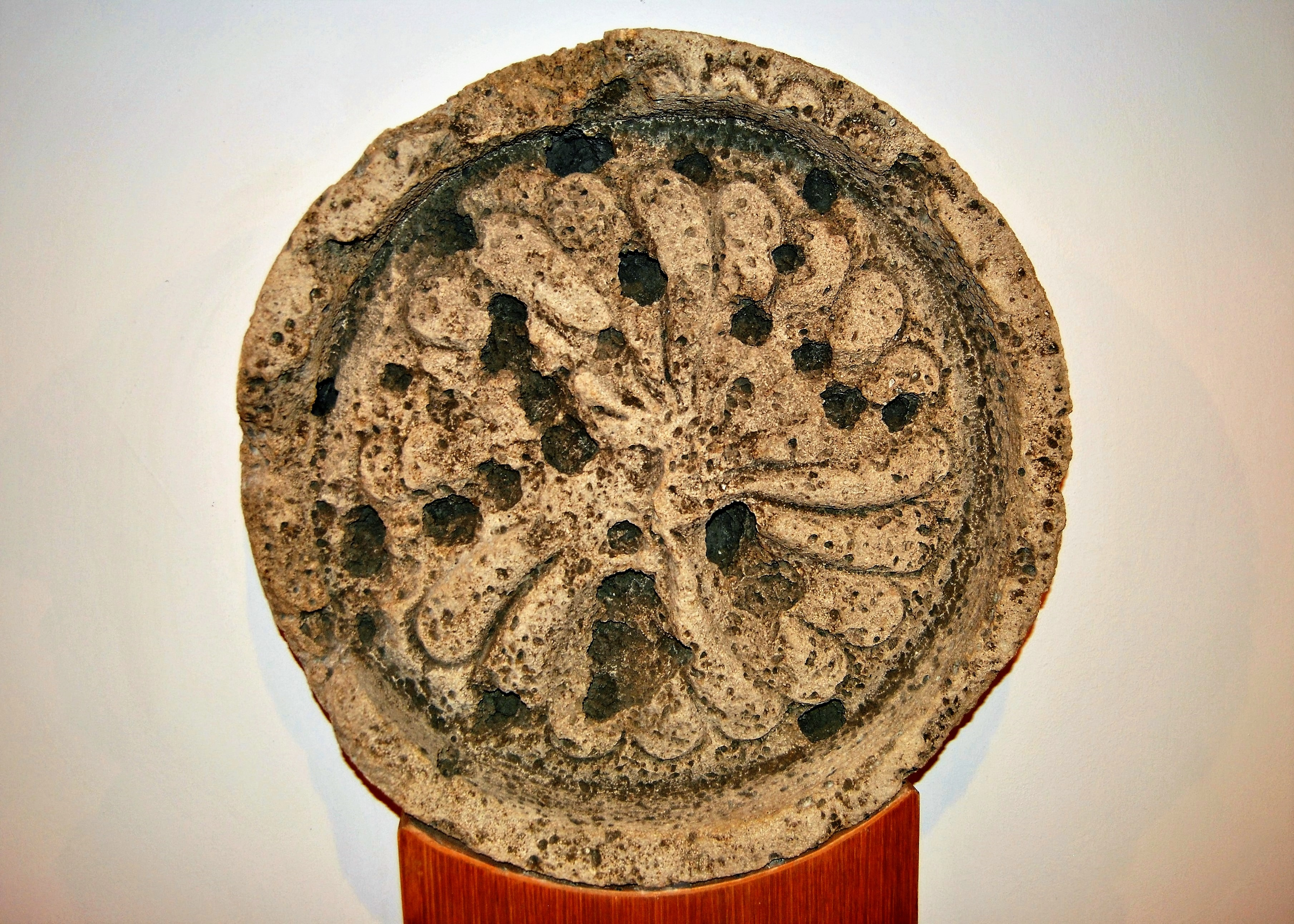 15th century rose window from the church in the Smederevo Fortress displayed in the Museum in Smederevo. The rose window was the inspiration for the museums logo